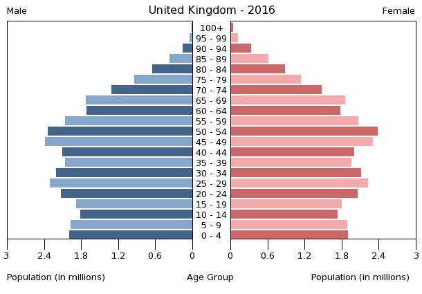 The population pyramid of the United Kingdom illustrates the age and sex structure of population and may provide insights about political and social stability, as well as economic development. The population is distributed along the horizontal axis, with males shown on the left and females on the right. The male and female populations are broken down into 5-year age groups represented as horizontal bars along the vertical axis, with the youngest age groups at the bottom and the oldest at the top. The shape of the population pyramid gradually evolves over time based on fertility, mortality, and international migration trends.